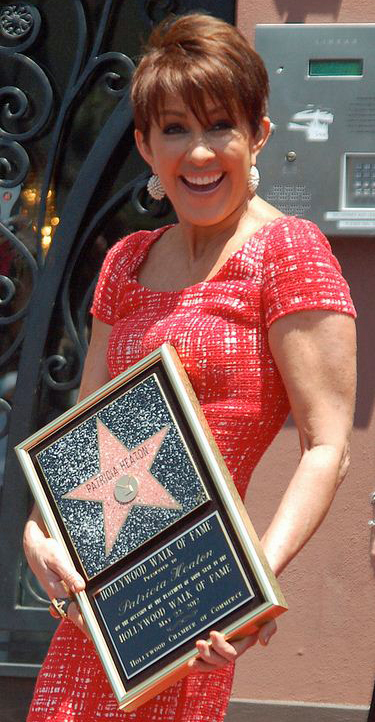 Patricia Heaton at a ceremony to receive a star on the Hollywood Walk of Fame.